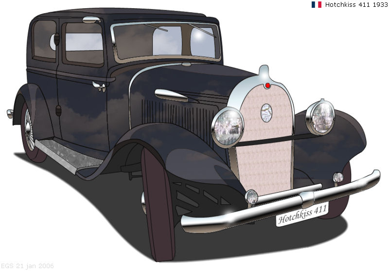 1933 Hotchkiss 411